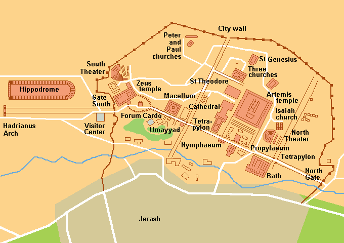 Map (rough) Jerash Jordanien, corrected version, own work composed from various mapreferences